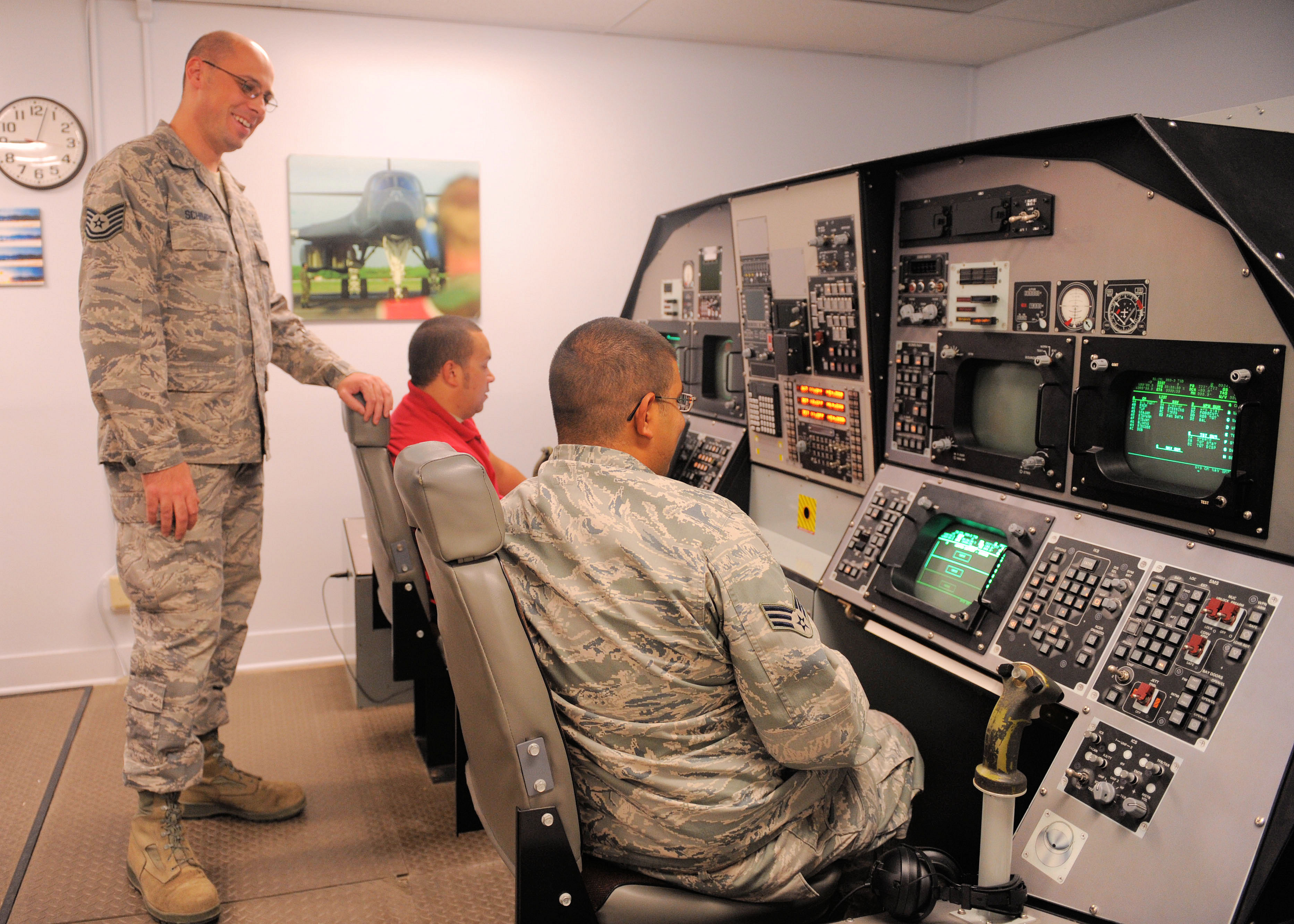 Tech. Sgt. Michael Schimpf, 436th Training Squadron, Detachment 20 instructror, trains two individuals on the weapons flightline course, Oct. 4, 2011, at Dyess Air Force Base, Texas. The course is required for airmen with a weapons Air Force Specialty Code. (U.S. Air Force photo by Airman 1st Class Cierra Bullock/Released)